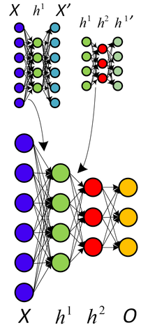 Stacked Autoencoders